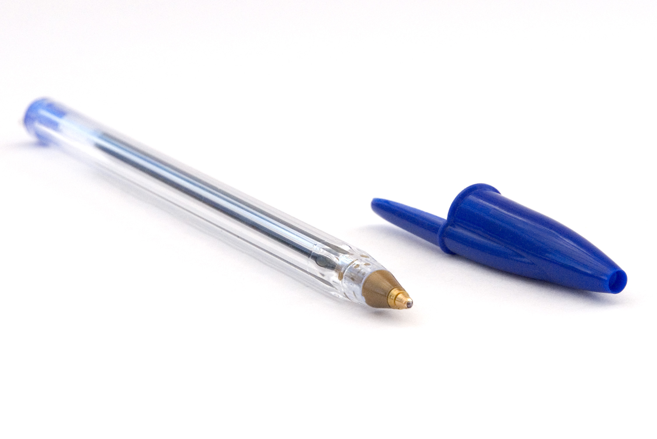 BIC cristal pen